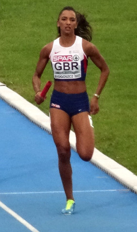 2017 European Athletics U23 Championships in Bydgoszcz Poland, 4x100m relay women final